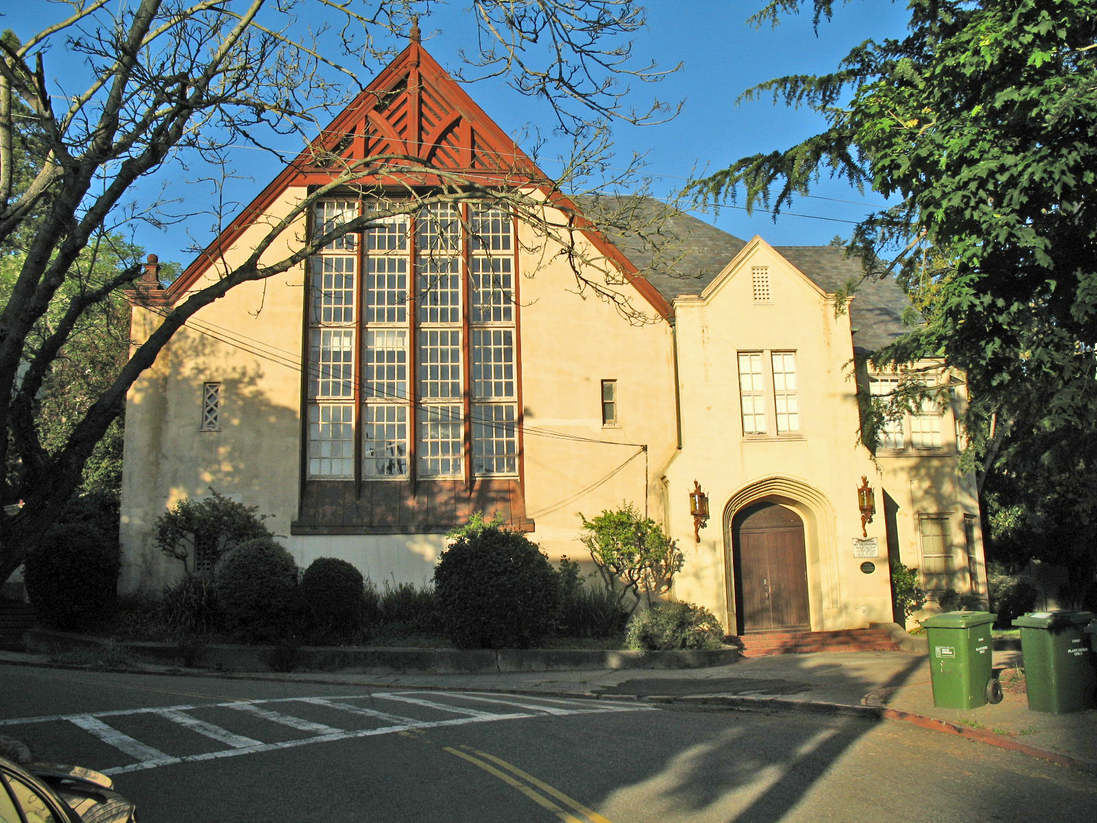 Hillside Elementary School — 1581 Leroy Avenue at Cedar, North Berkeley, Berkeley, California. National Register of Historic Places in Alameda County, California. Photographed from the north side of Buena Vista Way east of the intersection with Leroy Avenue, on 16 May 2009.